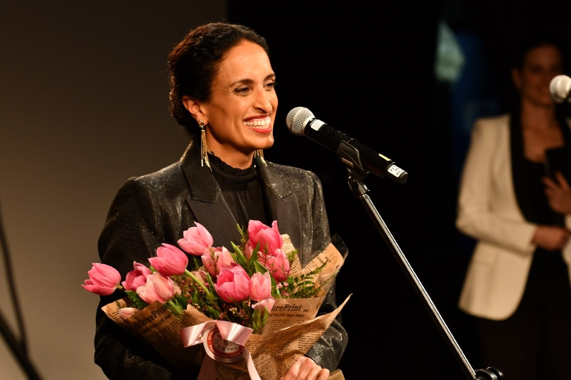 Noa receives the Shulamit Aloni's Lifetime Achievement award, 2019. Photo by Michel Braunstein. With thanks to the Achinoam Nini private archive.